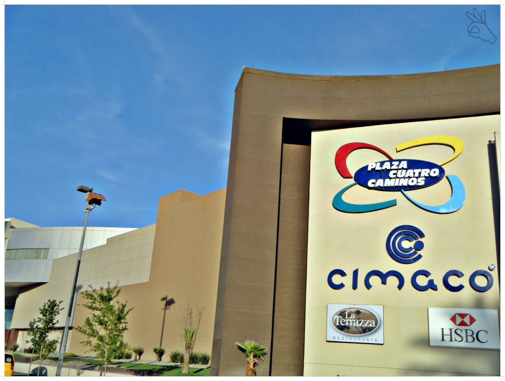 4 caminos mall